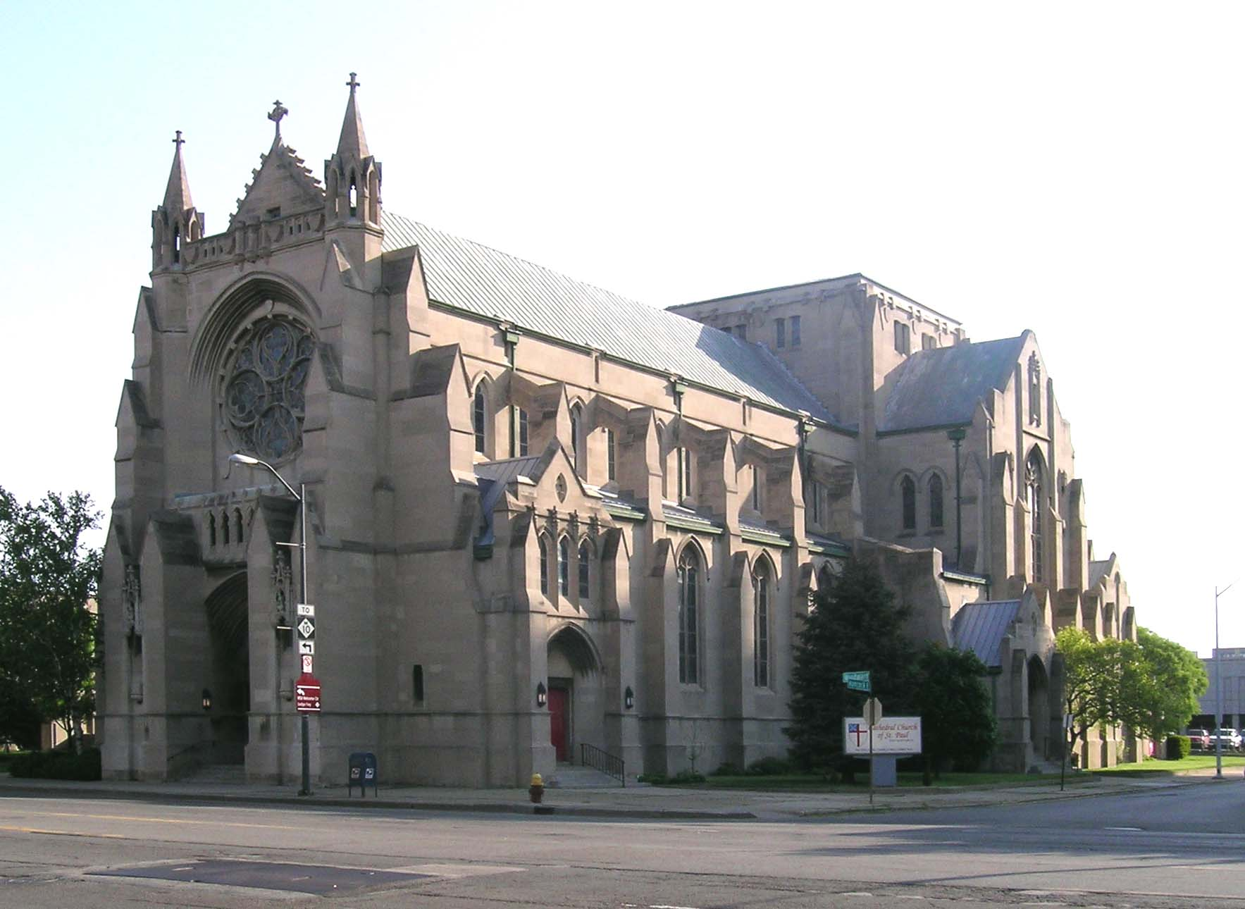 Cathedral Church of Saint Paul on Woodward Avenue in Detroit, Michigan. It is a 1908 Gothic revival church On the National Register of Historic Places.